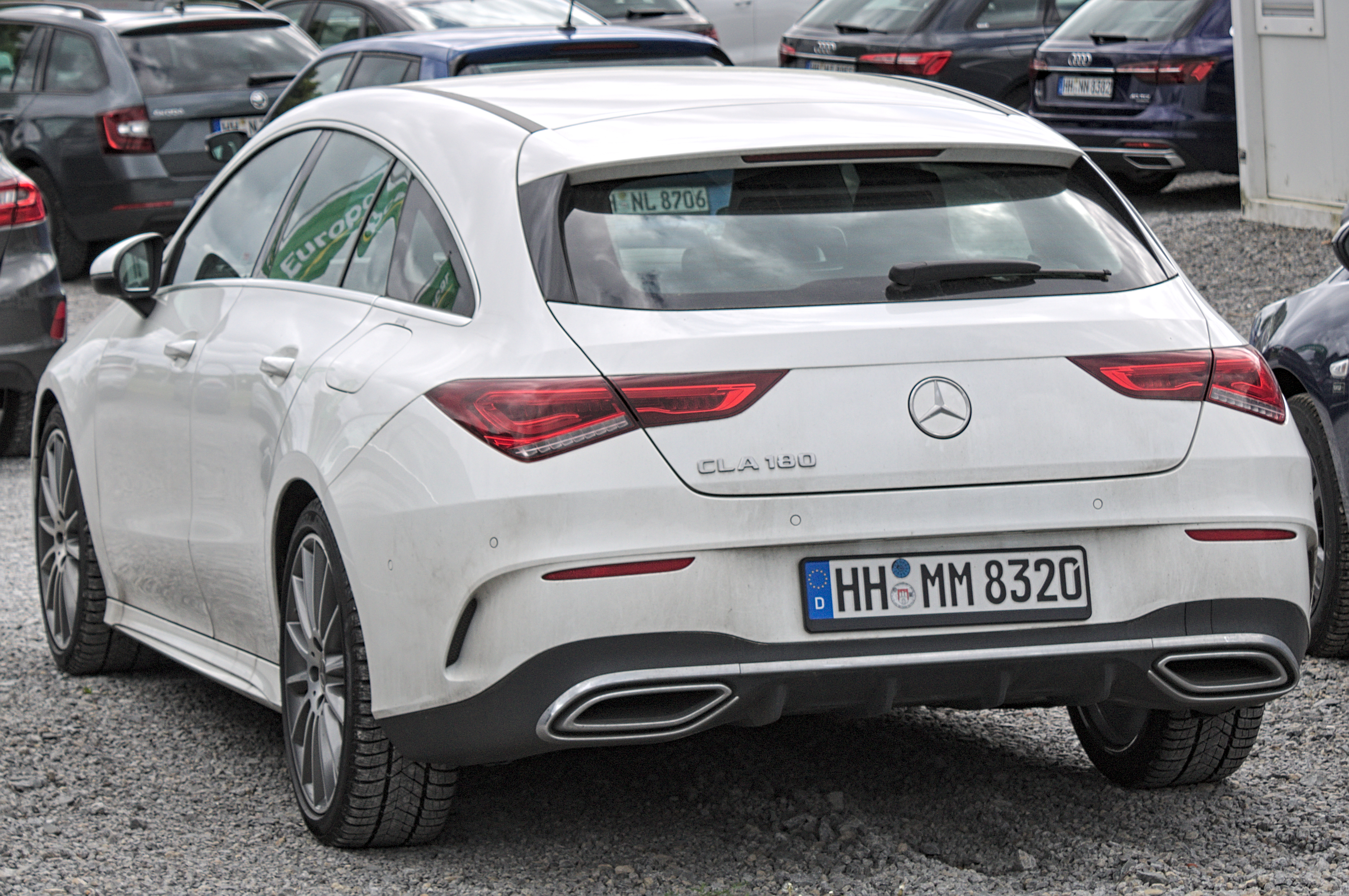 Mercedes-Benz_X118 in Stuttgart-Vaihingen